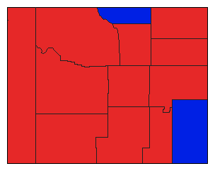 Results of the 1898 Wyoming Governor Election by county.